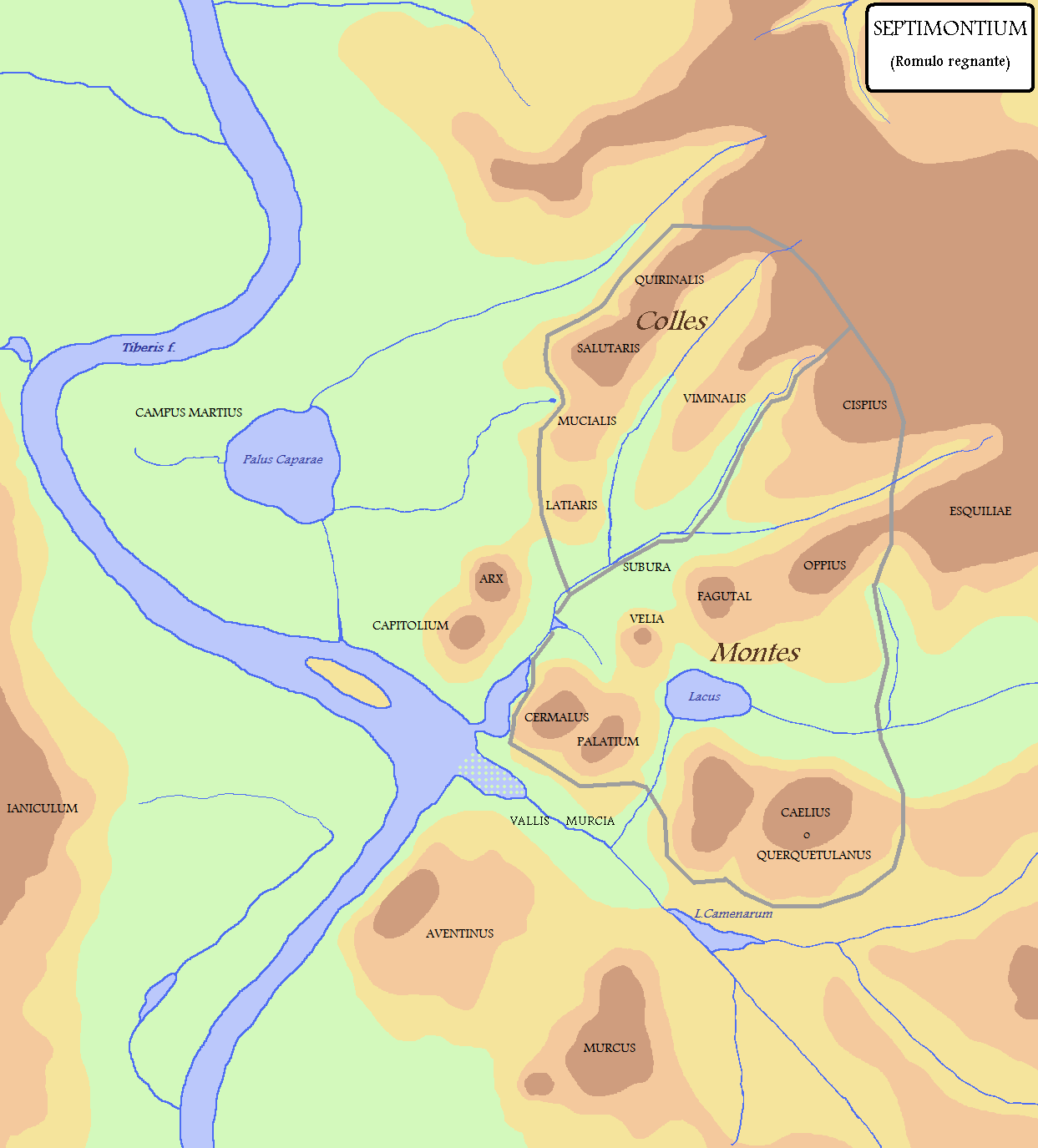 Seven hills of Rome map (Latin). Highlands are shown in red, lowlands in green.